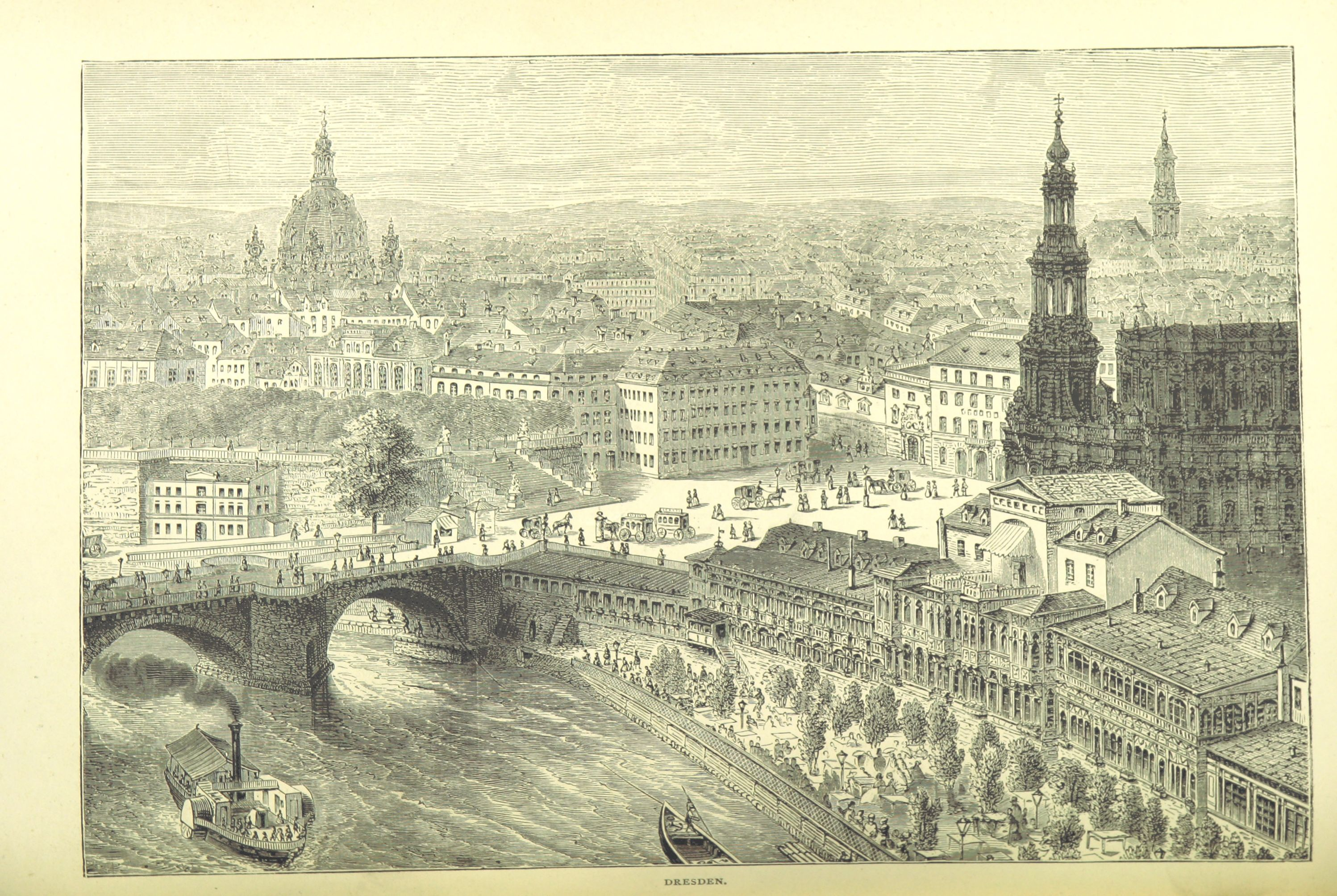 Image extracted from page 56 of Pictures from the German Fatherland, drawn with pen and pencil', by GREEN, Samuel Gosnell. Original held and digitised by the British Library. Copied from Flickr. Note: The colours, contrast and appearance of these illustrations are unlikely to be true to life. They are derived from scanned images that have been enhanced for machine interpretation and have been altered from their originals.